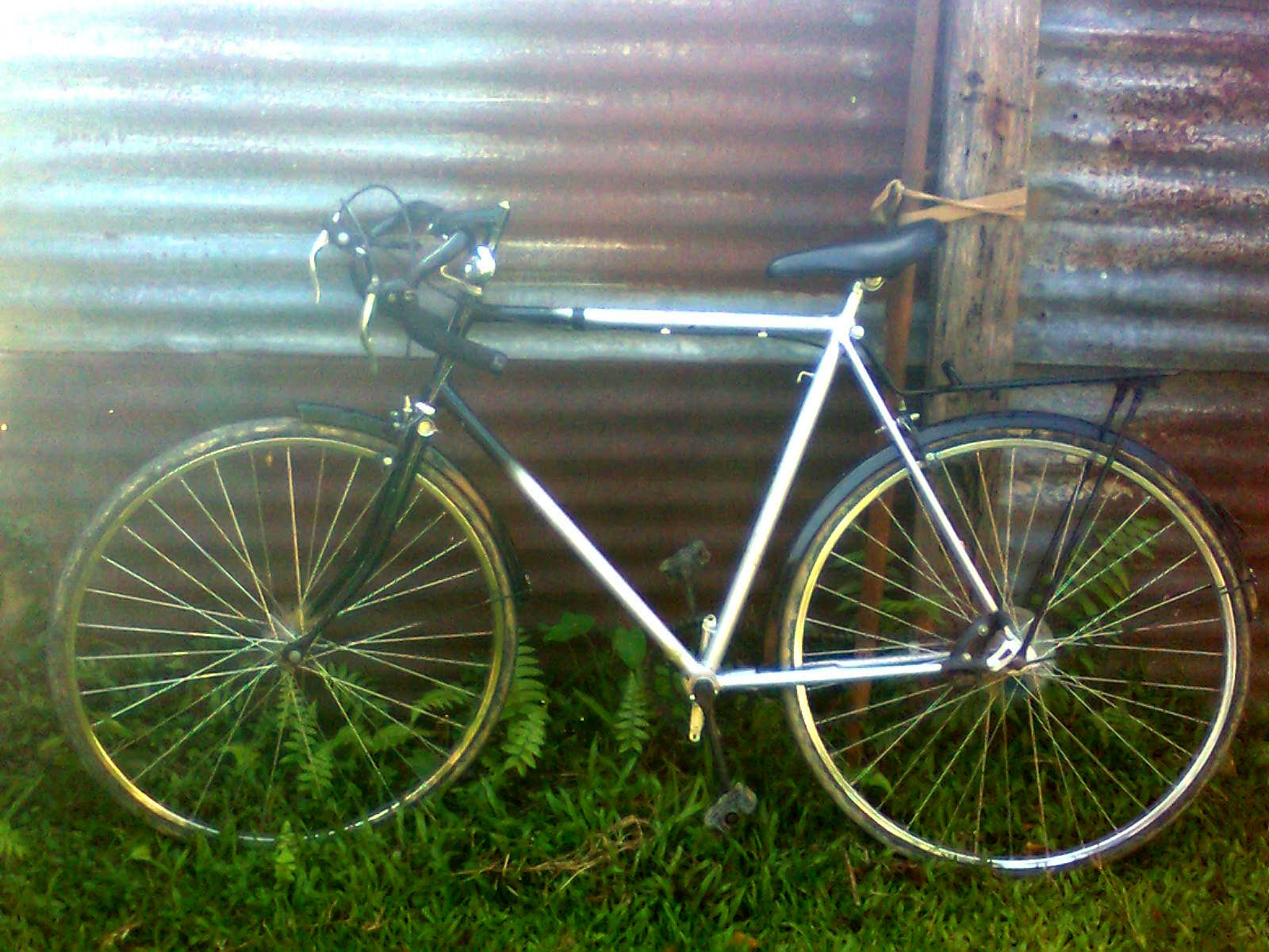 A hero hawk with aero handlebars and chain cover removed.